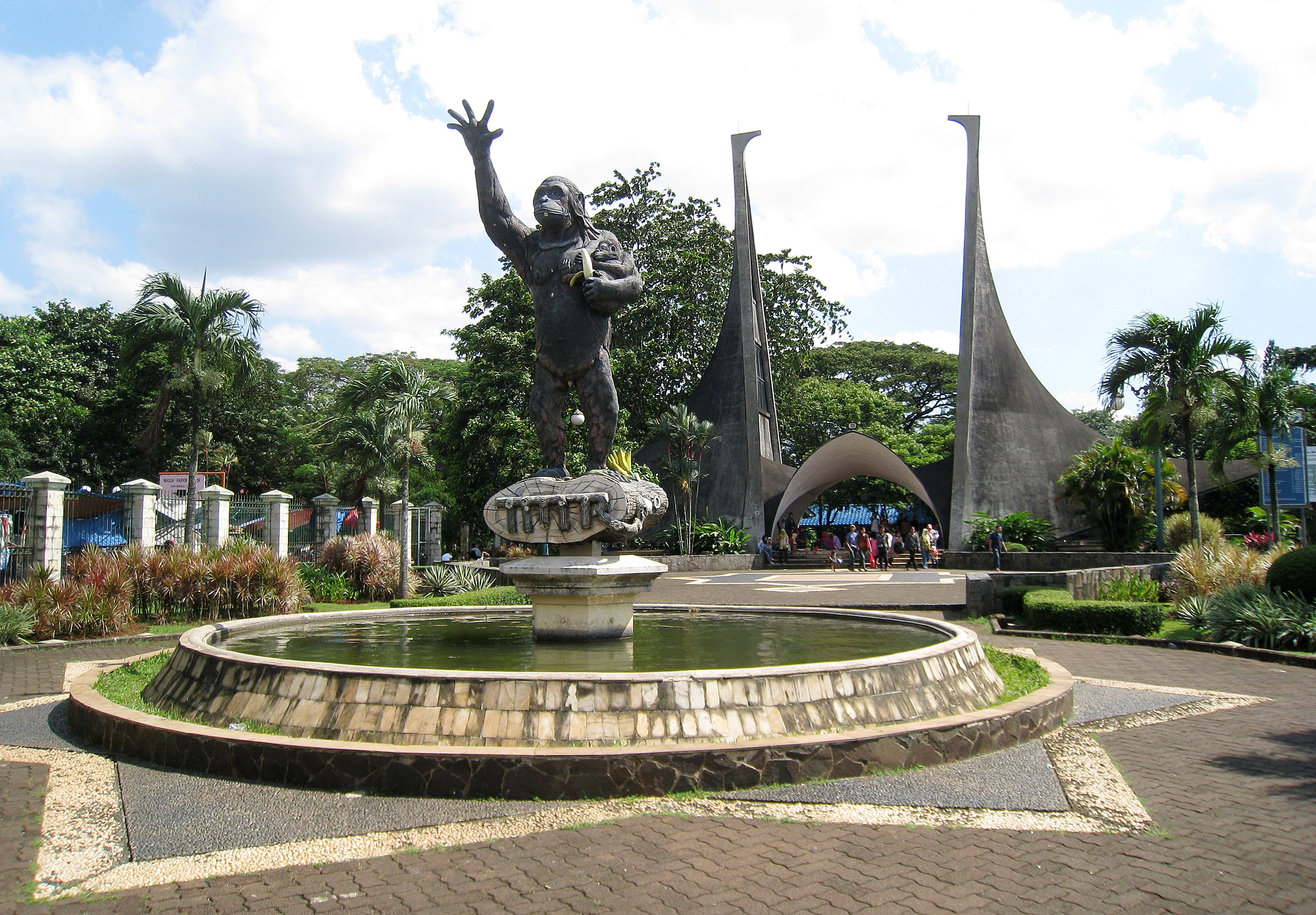 The gate of Ragunan Zoo, South Jakarta. The gate design took cue from traditional Java-Bali split gate Candi Bentar, however the gate took form of two large bird facing eachother. The front of the gate is tha statue of Orangutan, one of the most important primate species in Indonesia.